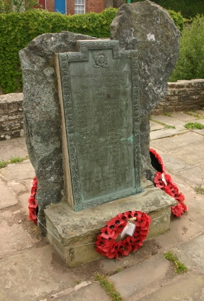 War Memorial by the riverbank at Talgarth, Powys, Wales